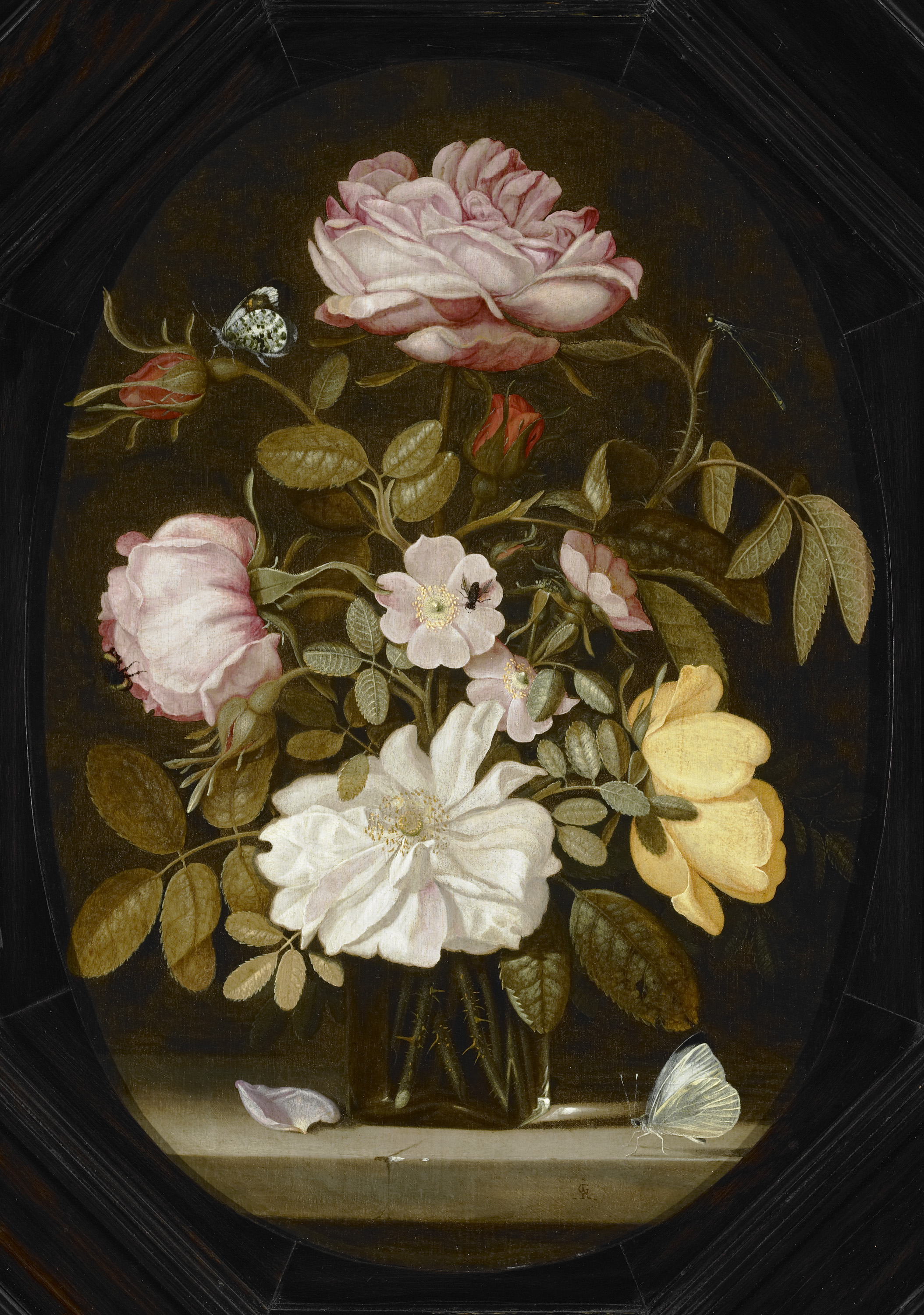 This image is available from the Netherlands Institute for Art Historyunder digital ID 7373. This tag does not indicate the copyright status of the attached work. A normal copyright tag is still required. See Commons:Licensing.